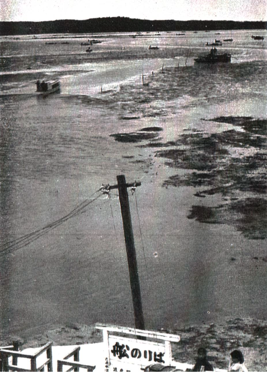 This is the Anagawa Harbor in Anagawa, Isobe village, Shima district, Mie prefecture, Japan.